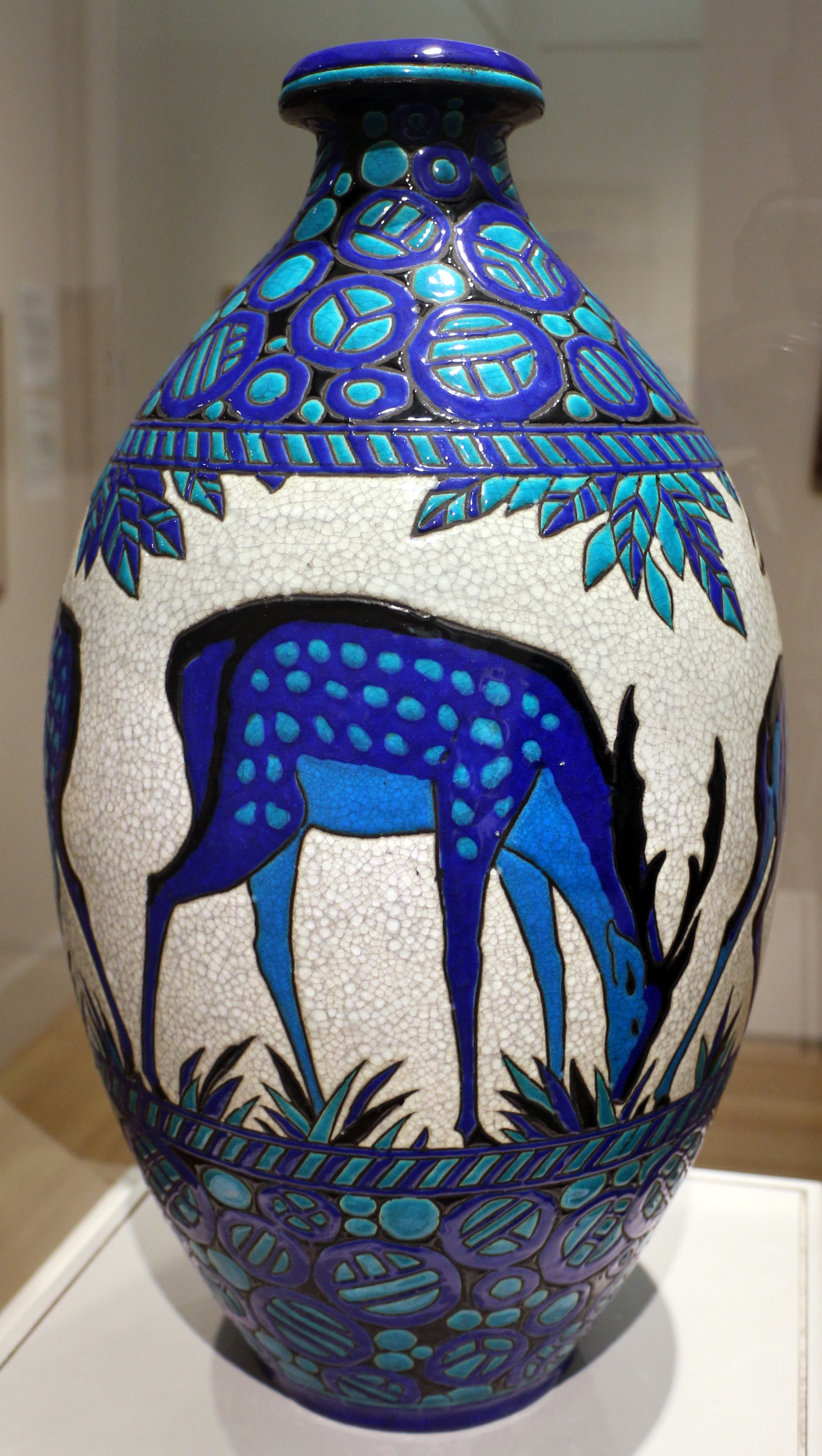 Ceramics in the Speed Art Museum